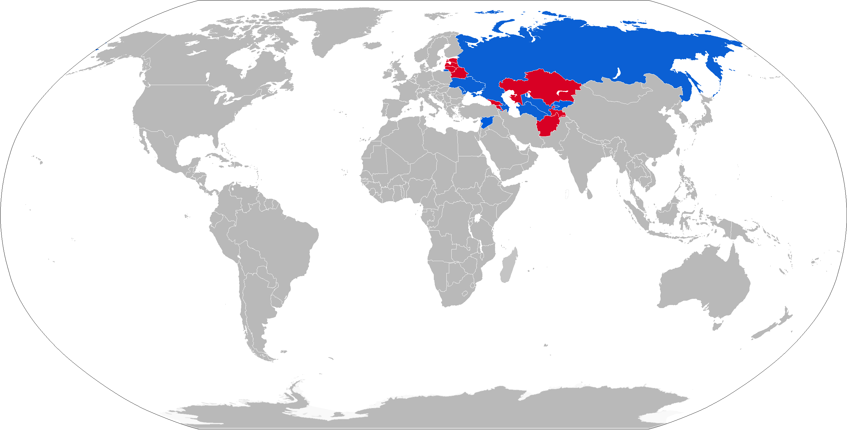 Map of 2S9 operators in blue with former operators in red